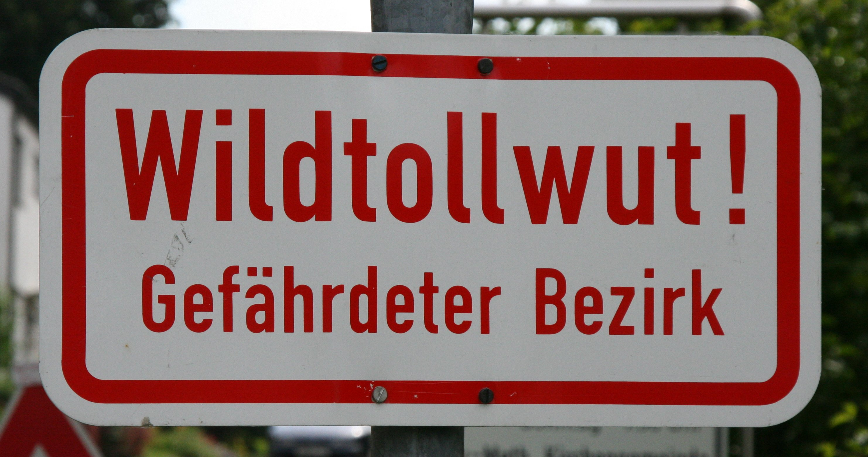 Rabies of wild animals! Endangered district. German warning sign about rabies.